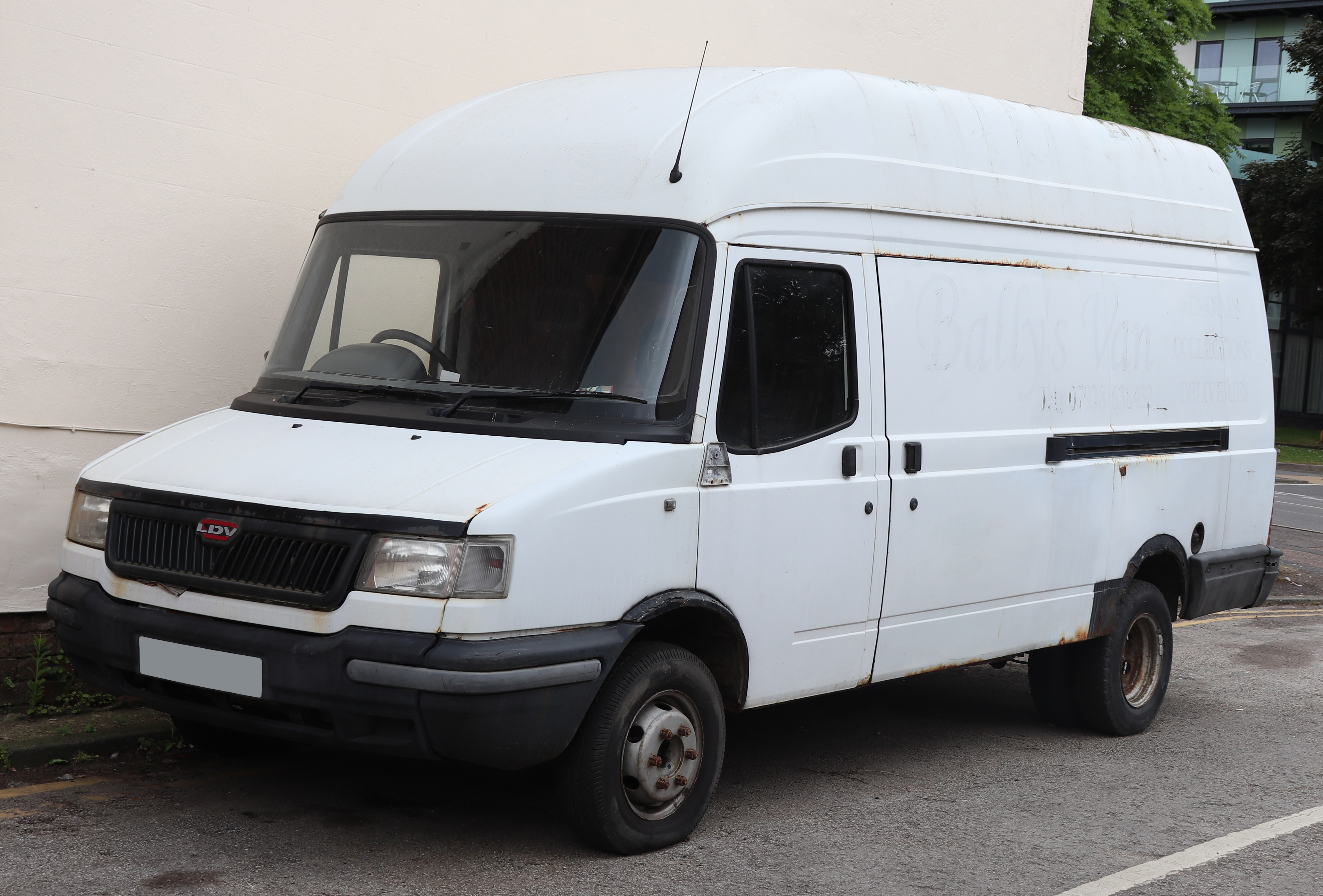 2004 LDV 400 Convoy Diesel LWB 2.4 Front Taken in Leamington Spa